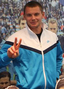 Yury Zhevnov during autograph session